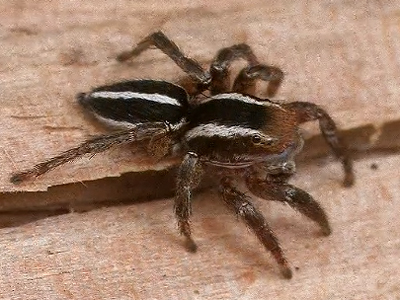 Male Phlegra hentzi jumping spider found in Middlesex County, Massachusetts. Still frame from video.